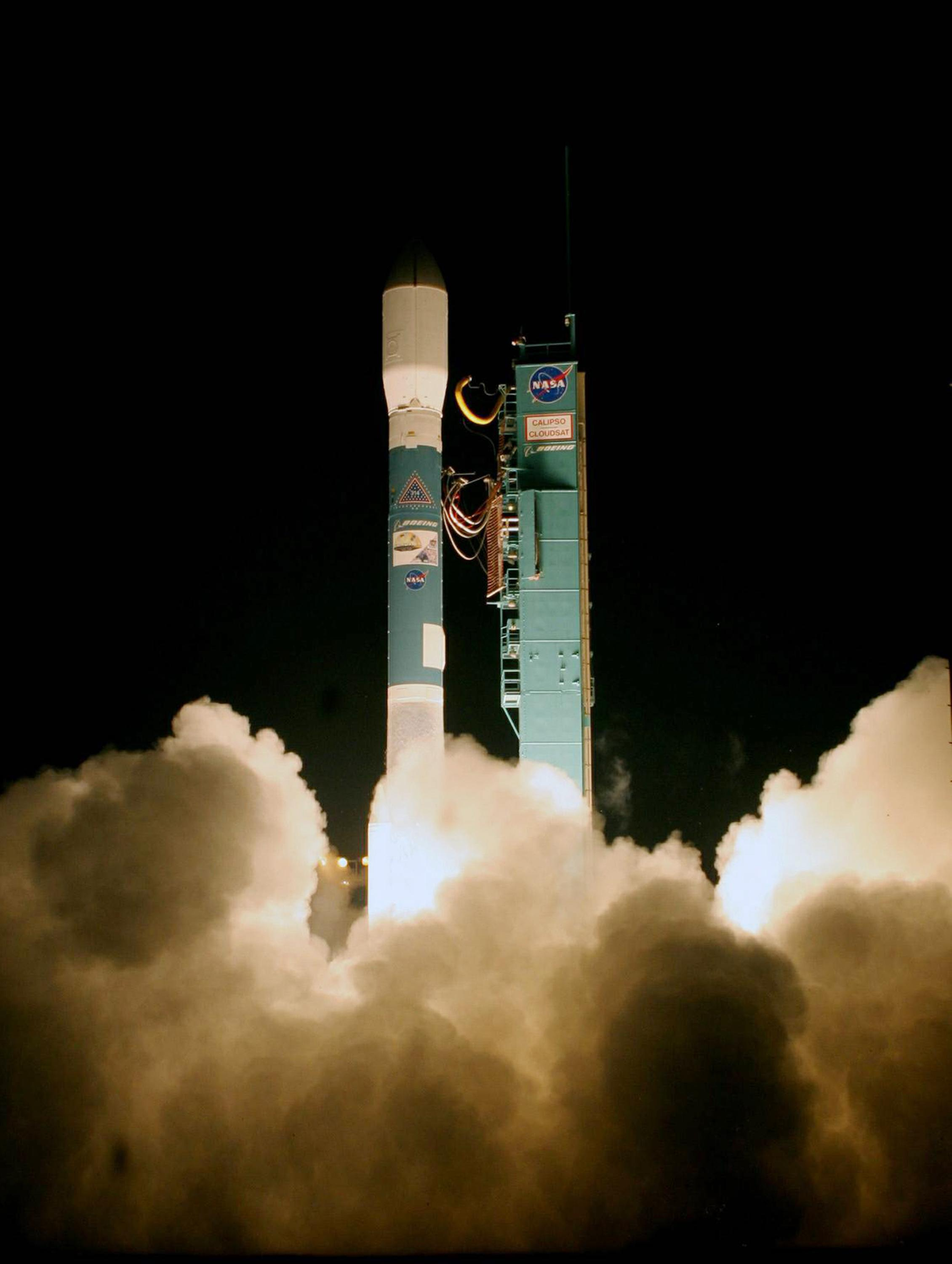 CloudSat and CALIPSO ("Cloud-Aerosol Lidar and Infrared Pathfinder Satellite Observations") thunders skyward after launch at approximately 6:02 a.m. EDT atop a Boeing Delta II rocket. The two satellites will eventually circle approximately 438 miles above Earth in a sun-synchronous polar orbit, which means they will always cross the equator at the same local time. Their technologies will enable scientists to study how clouds and aerosols form, evolve and interact. CloudSat is managed by NASA's Jet Propulsion Laboratory, in Pasadena, Calif. JPL developed the radar instrument with hardware contributions from the Canadian Space Agency. CALIPSO is collaboration between NASA and France's Centre National d'Etudes Spatiales (CNES). Langley Research Center, in Hampton, Va., is leading the CALIPSO mission and providing overall project management, systems engineering, and payload mission operations.